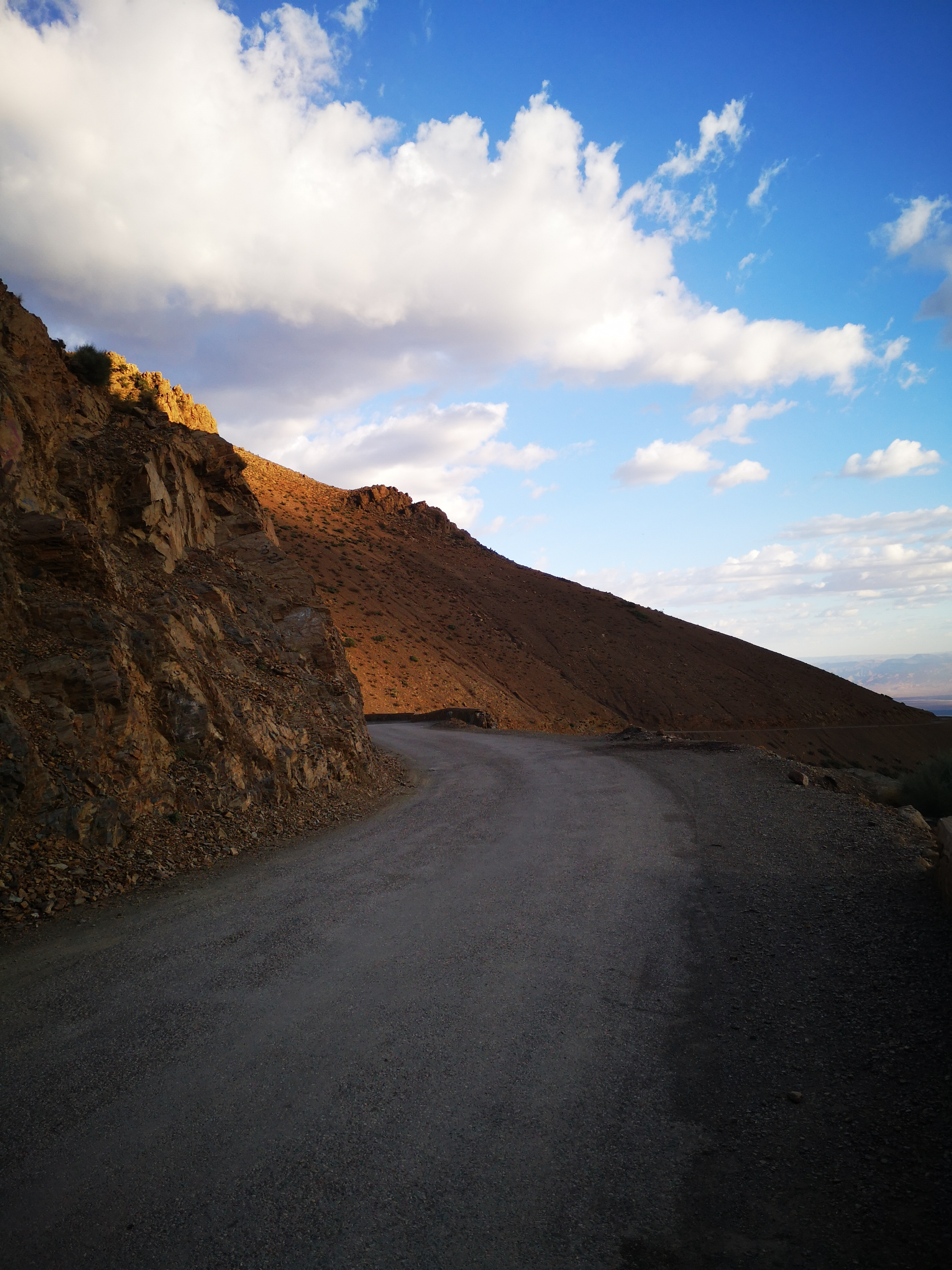 This is an image with the theme "Africa on the Move or Transport" from: Morocco